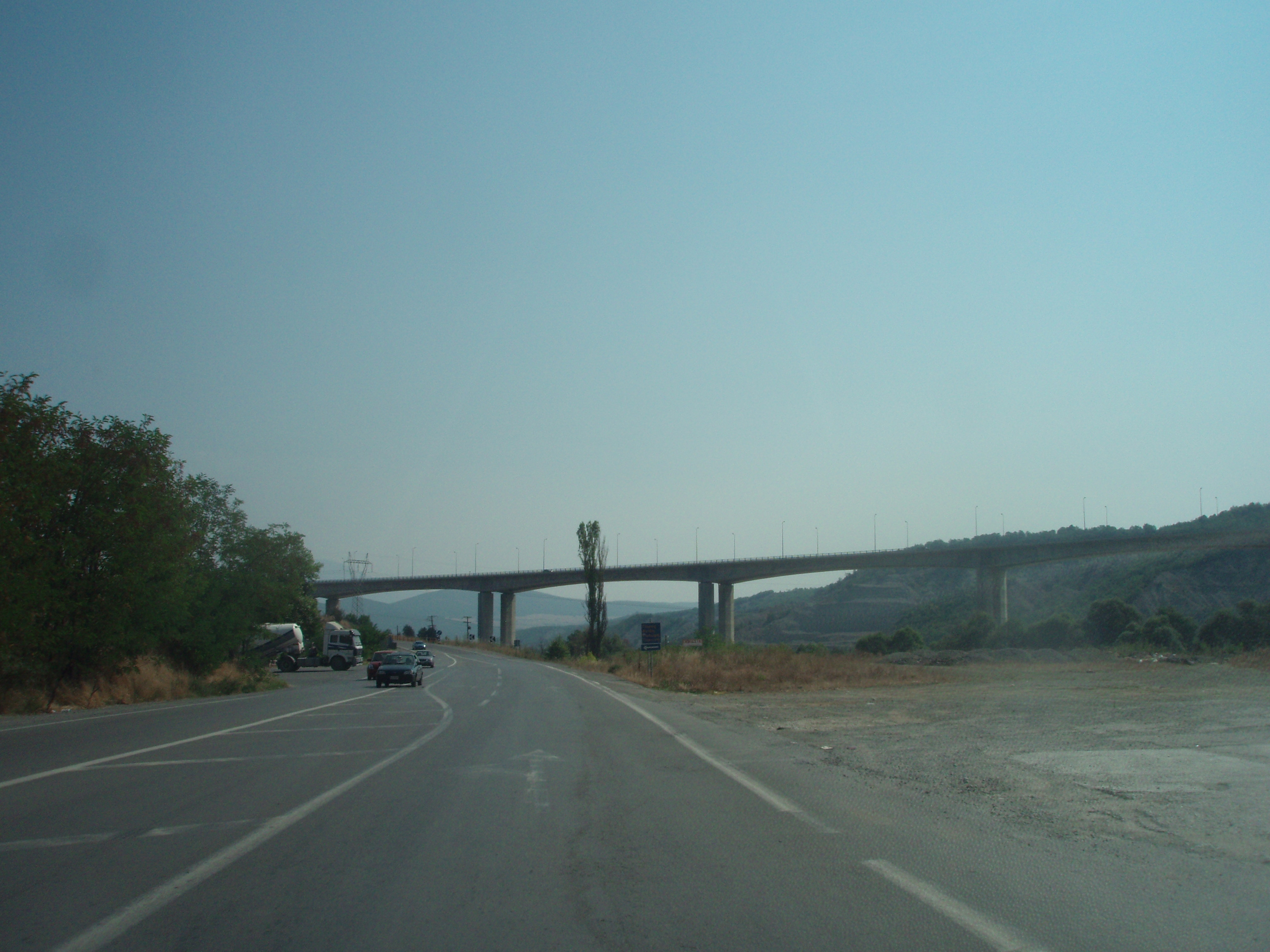 Greveniotikos bridge of A2 motorway (Egnatia Odos) in Greece, section Grevena-Venetikos. It crosses the valley of Greveniotikos river east of the city of Grevena. Photo shot from National Road 15, section Grevena-Siatista.